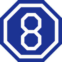 8th Army Corps Shoulder-Sleeve Insignia (SSI) - Digital Copy from Unit Archives of 490th Civil Affairs Battalion, used with permission of Commander, 490th Civil Affairs Battalion